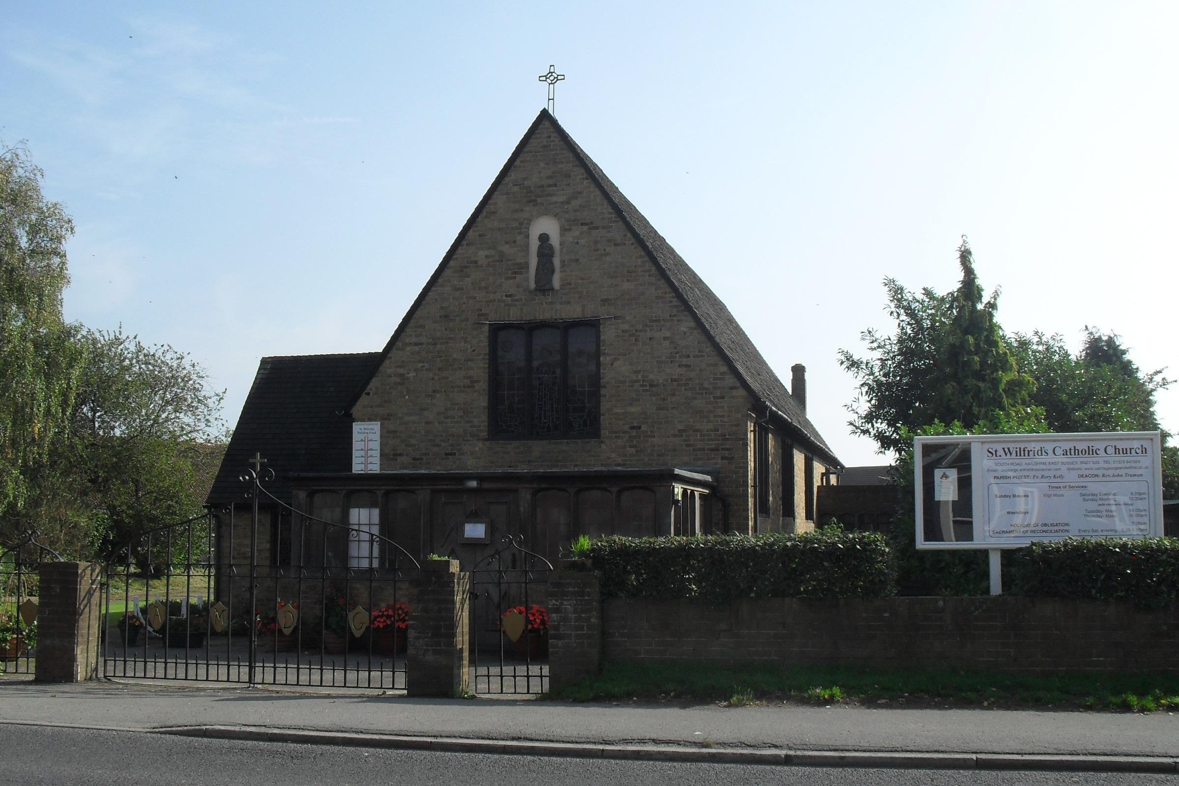 Roman Catholic church of St Wilfrid, South Road, Hailsham, East Sussex, England. The first church designed by prolific architect Henry Bingham Towner.